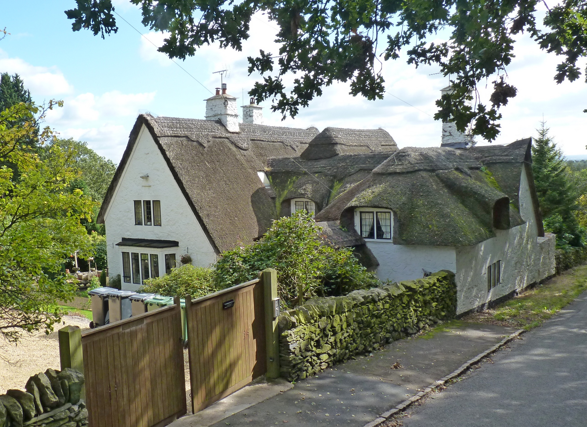 Lea Cottage was designed by Ernest Gimson and built by Detmar Blow, in the Arts and Crafts style in 1898-9. The tall projecting wing on the left was added in 1972. Stoneywell, also by Gimson and Blow, stands down the hill off left from this picture, and cannot be seen from the road.